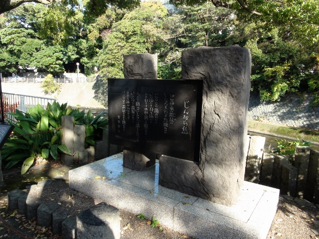 JINNARA-UO fish poetry of the monument. Ito City